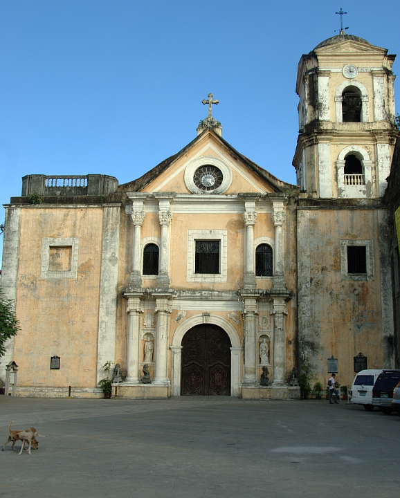 San Agustin Church facade